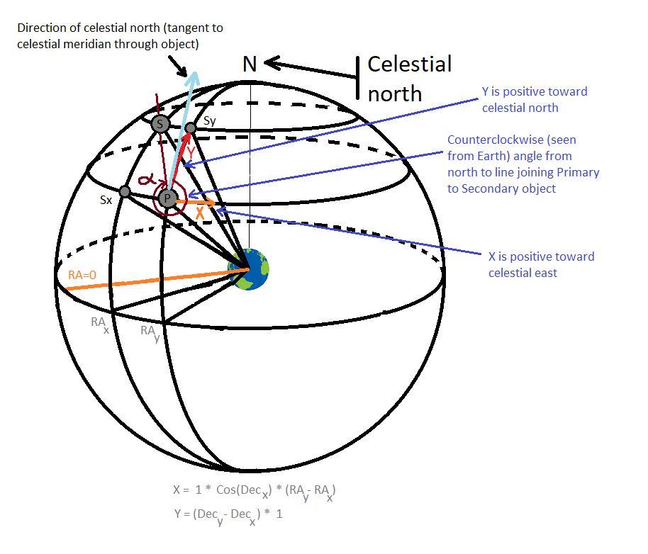 Graphic rapresentation of JPL Horizons On-Line Ephemeris System output values. RA = Right ascension; the distance on the celestial sphere eastward along the celestial equator from the reference equinox to the meridian of the object. RA is analogous to longitude, with the plane containing the equinox defining zero RA much as the Greenwich meridian defines zero longitude. There are different types of RA, depending on what coordinate system and aberrations are requested. Values are expressed in sexagesimal time units of hours, minutes, and seconds OR decimal angular degrees, as requested. DEC = Declination; the angular distance on the celestial sphere north (positive) or south (negative) of the celestial equator. It is analogous to latitude. As with RA, there are different types of DEC depending on what coordinate system and aberrations are requested. Usually expressed in decimal angular degrees.